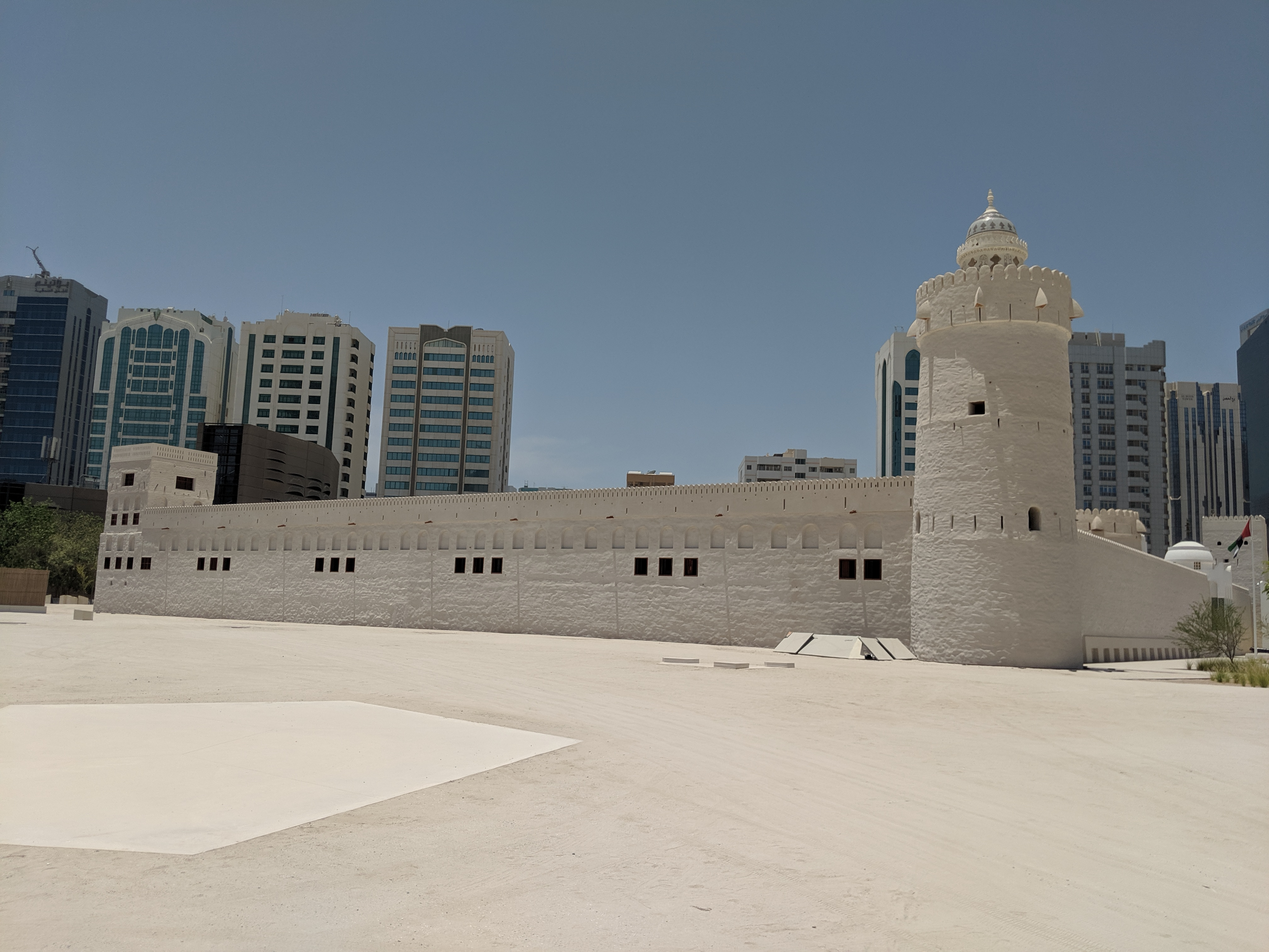 Qasr al Hosn in Abu Dhabi is an old fortress in the United Arab Emirates.